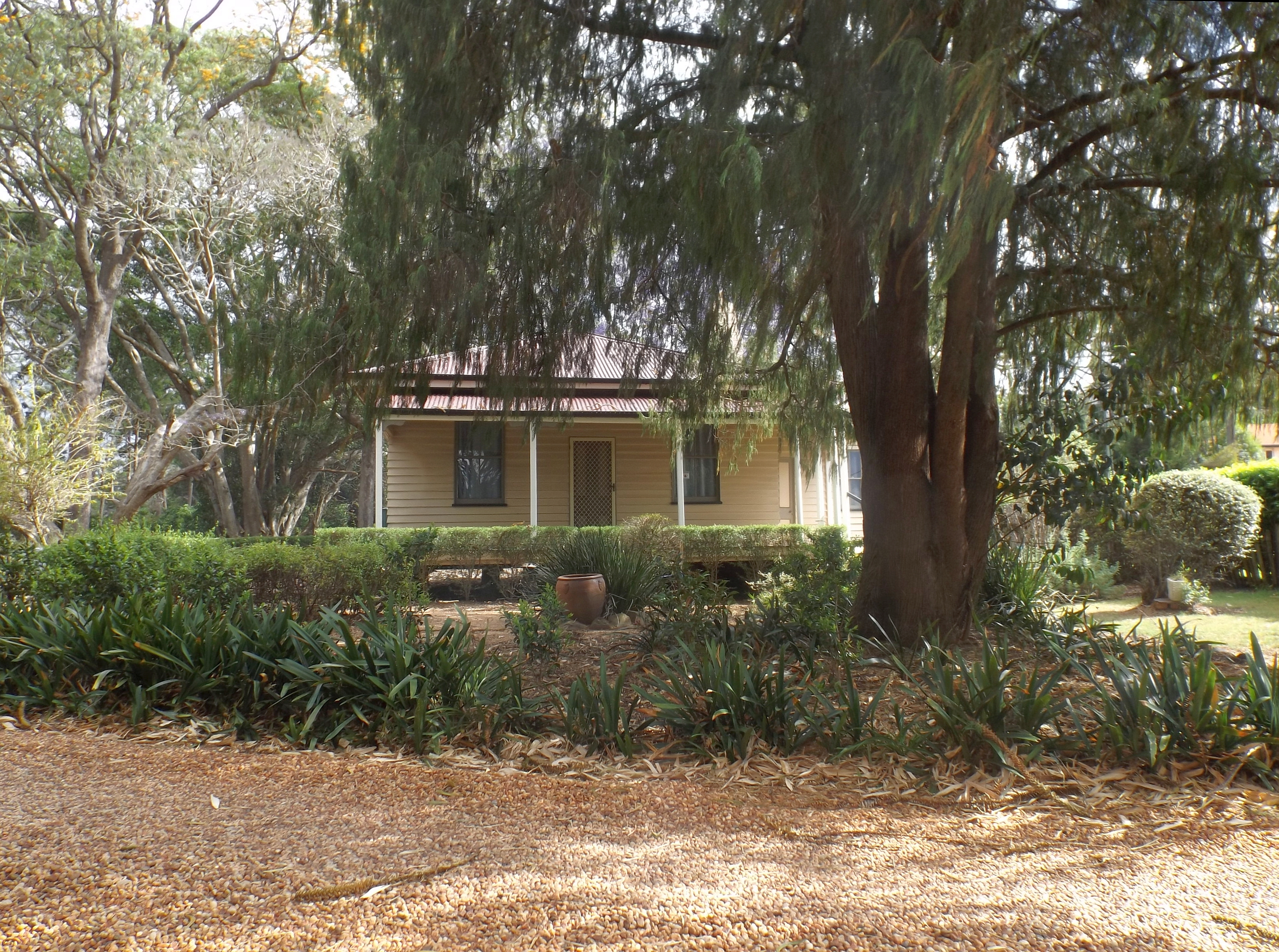 Photo of gardens and entrance building at Gabbinbar Homestead in Middle Ridge, Toowoomba, Queensland, Australia.